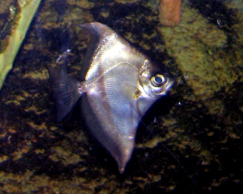 Monodactylus sebae at Louisville Zoo